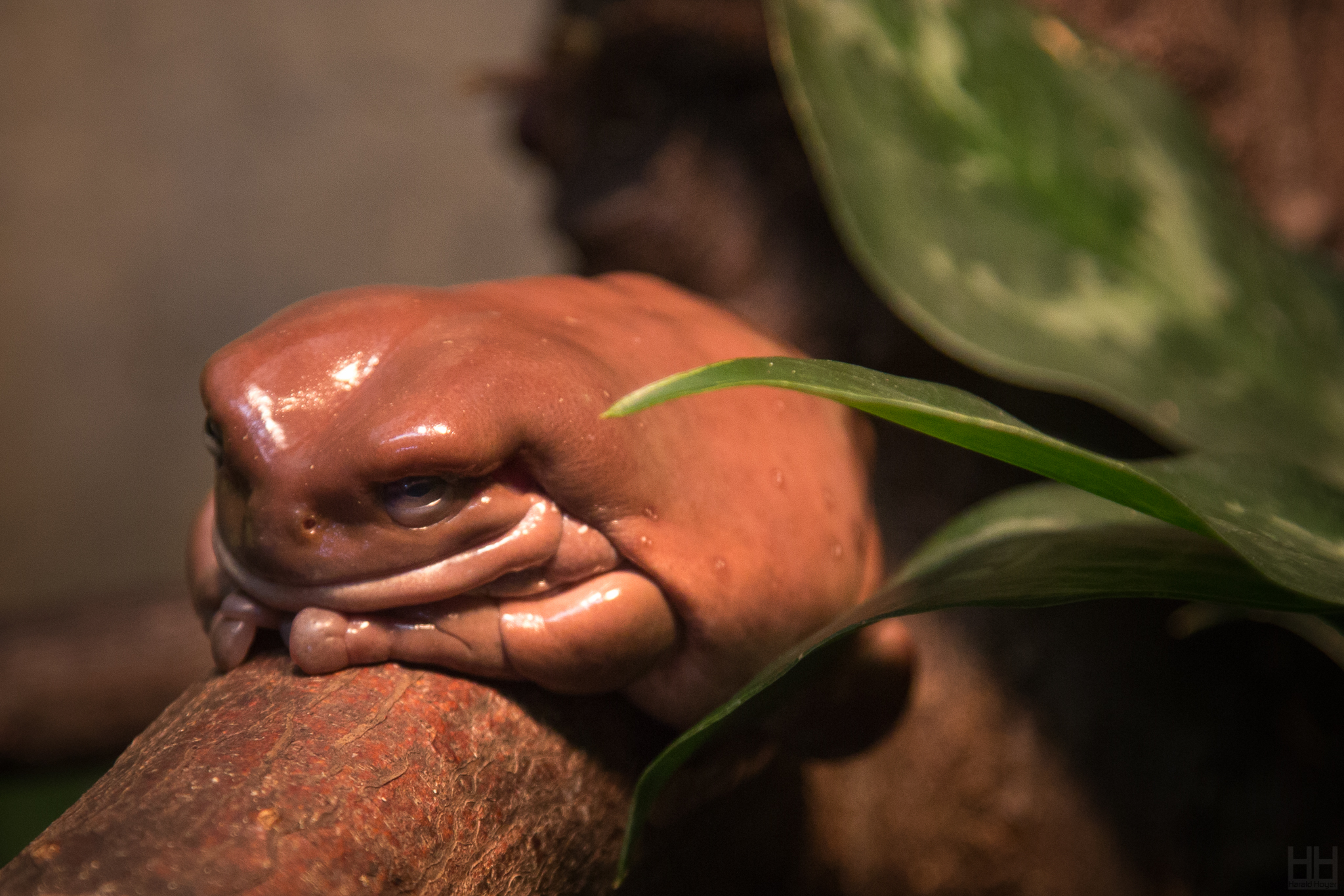 White's Tree Frog